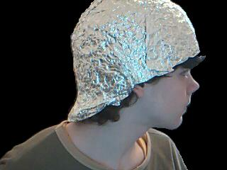 Author: Tar7arus, a Wikipedian Source: Own work - Made the hat myself, took the picture on my own webcam, at home, blacked out the bckground myself on MSPaint Alternative URL (Tar7arus's site): Use: Granted use for any purpose at all, including commercial and/or derivative works